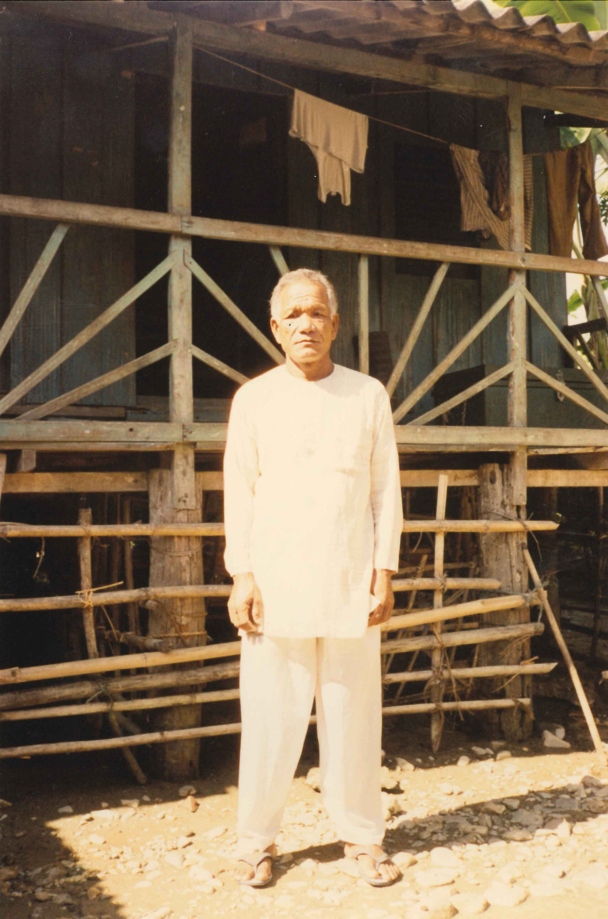 A Rabha Man standing in front of his house in Jalpaiguri District, West Bengal